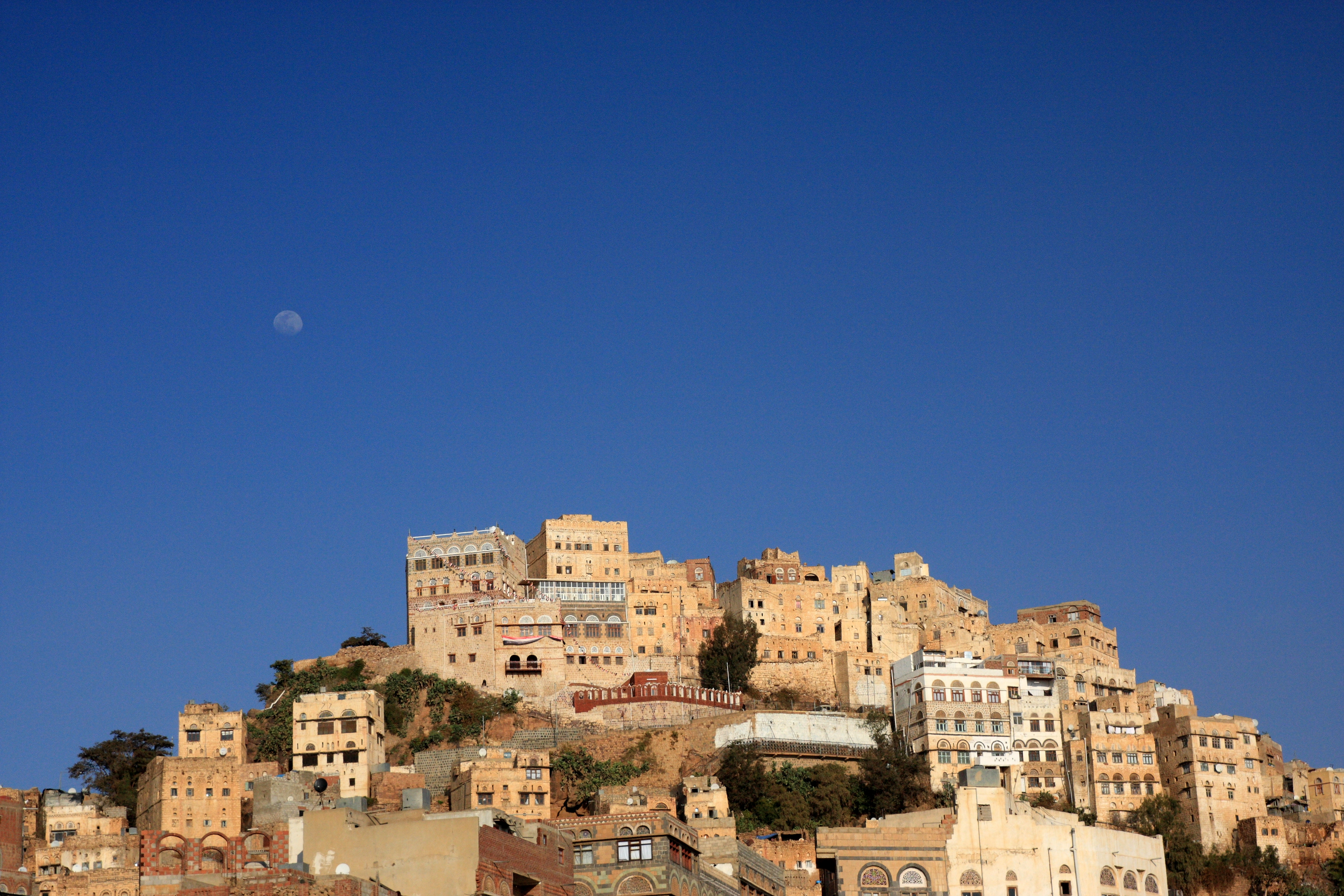 Al Mahwit, Haraz Mountains, Yemen